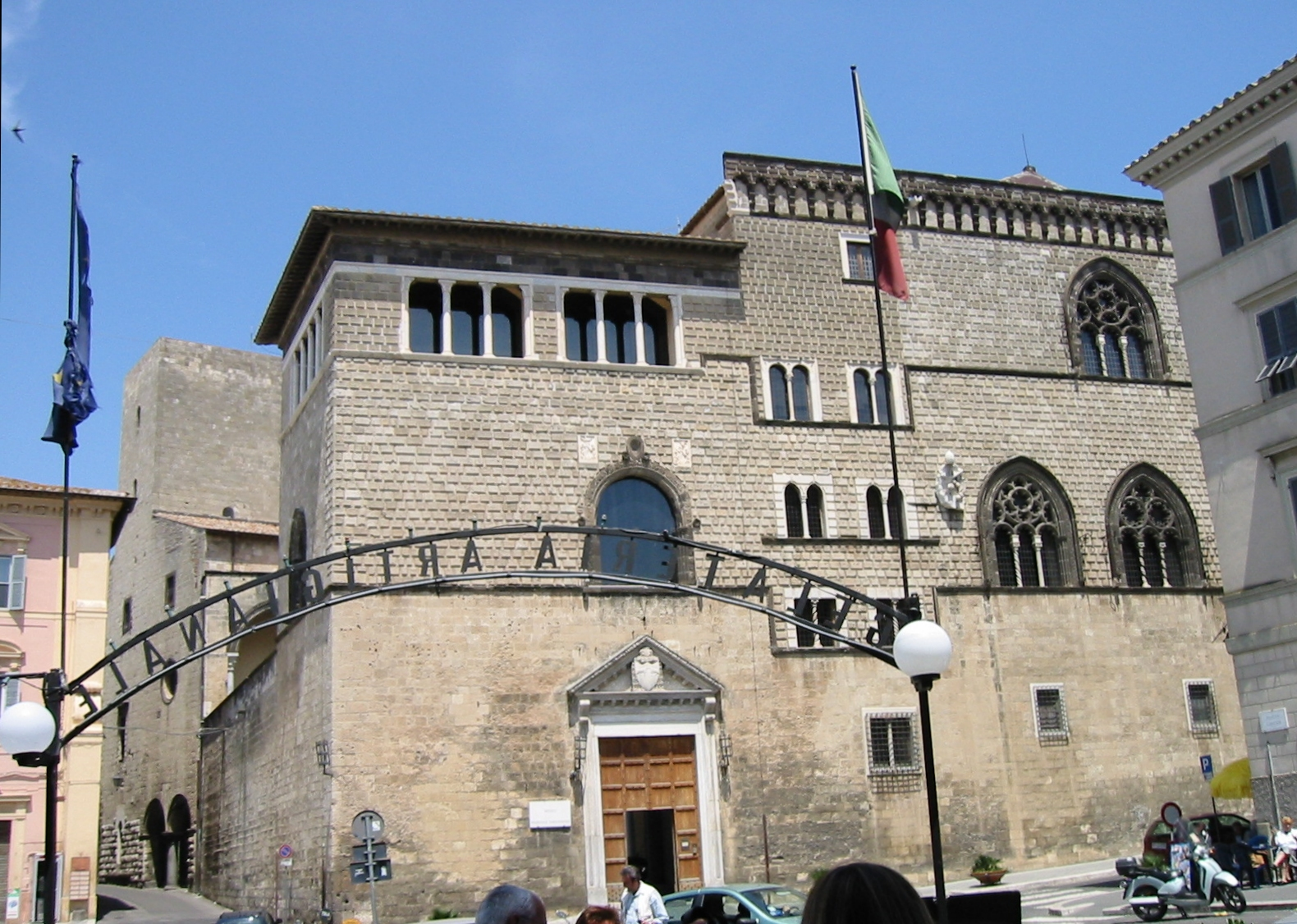 The Museo Nazionale Tarquinese in Tarquinia, the ancient Tarquinii, in Lazio, Italy